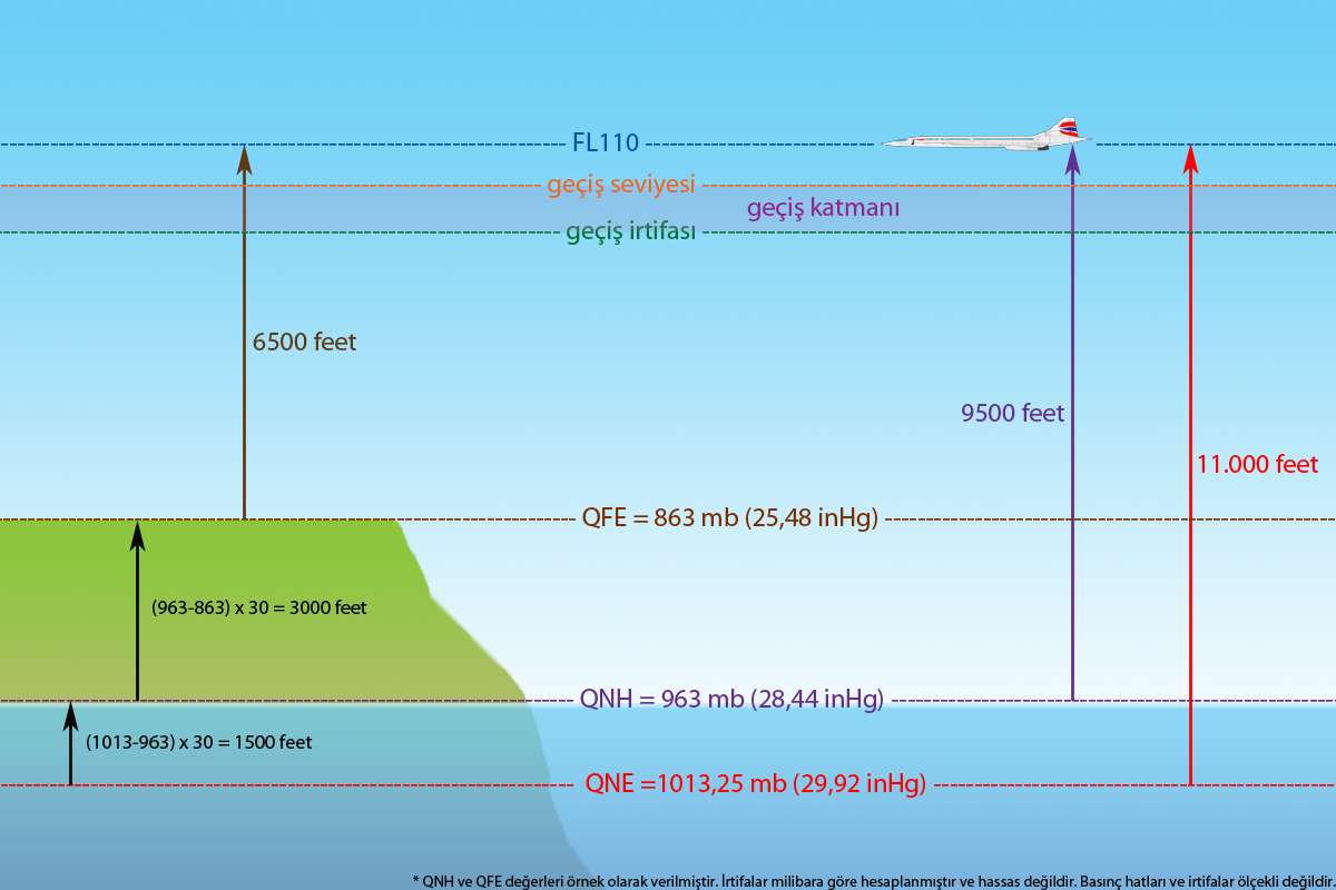 Transition altitude, flight level, QNE, QNH and QFE calculation.